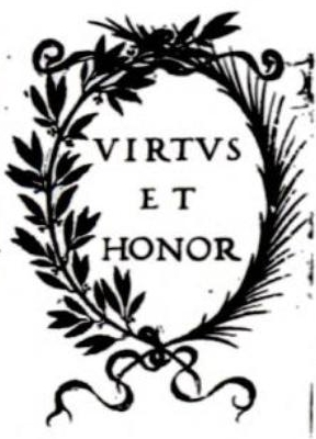 Detail of Bernardo Bembo's device from Paolo Marsi, Bem??? peregr????, fol. 111v, Eton College Library, Windsor